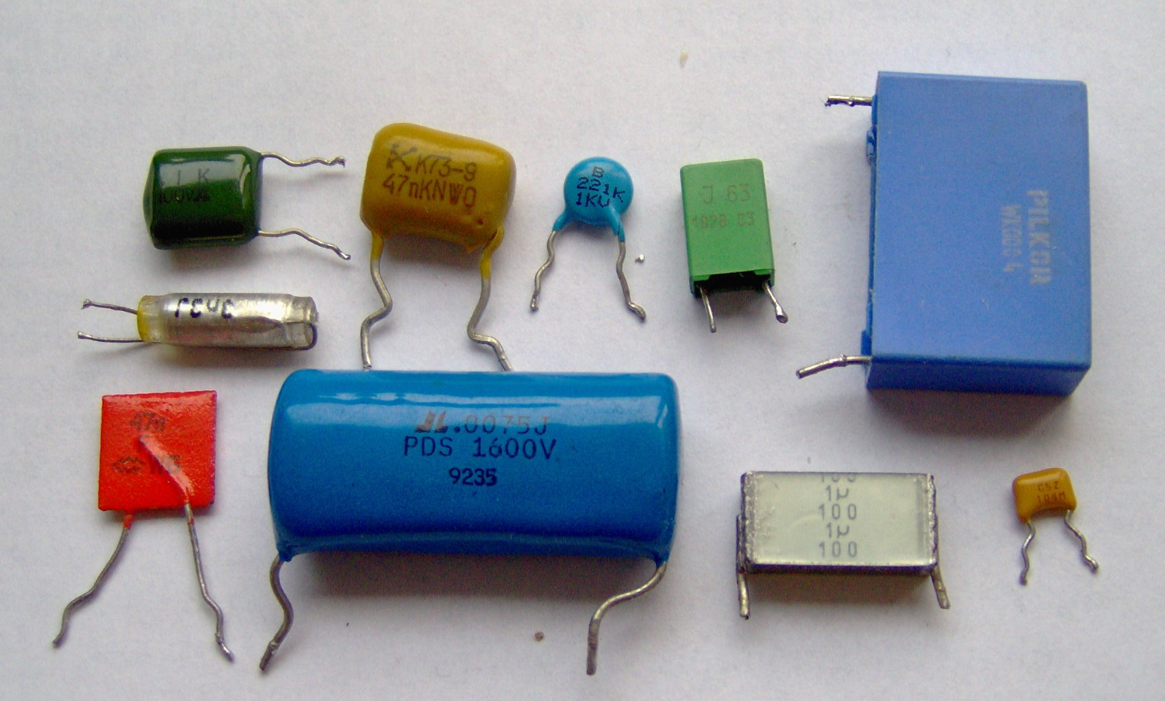 Electronic component - capacitor